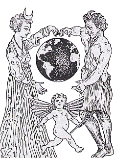 Wiccan views of divinity are generally theistic, and revolve around a Goddess and a God, thereby being generally dualistic, (with the Goddess given primacy in Dianic Wicca). Some Wiccans are polytheists, believing in many different deities taken from various 'pagan' pantheons, while others would believe that, in the words of Dion Fortune, "all the Goddesses are one Goddess, and all the Gods one God". Some see divinity as having a real, external existence; others see the Goddesses and Gods as archetypes or thoughtforms within the collective consciousness. The divine couple is one of the most ancient concepts in religion. God the Father was symbolized as the Sun, his consort was symbolized alternately as either the Moon or the Earth, and the "Lord" was viewed as their offspring: the Son of the Sun; a living representative of God on Earth. The name Gnostic is derived from the Greek word "gnosis" which literally means "knowledge." However, the English words "Insight" and "enlightenment" capture more of the meaning of "gnosis." Syzygy comes from the Latin word, syzygia, and from the Greek word syzygos meaning "conjunction." Syzygy literally means to be "yoked together." In Gnosticism, syzygy is a divine active-passive, male-female pair of aeons, complementary to one another rather than oppositional; they comprise the divine realm of the Pleroma (the totality of God's powers), and in themselves chracterize aspects of the unknowable Gnostic God.